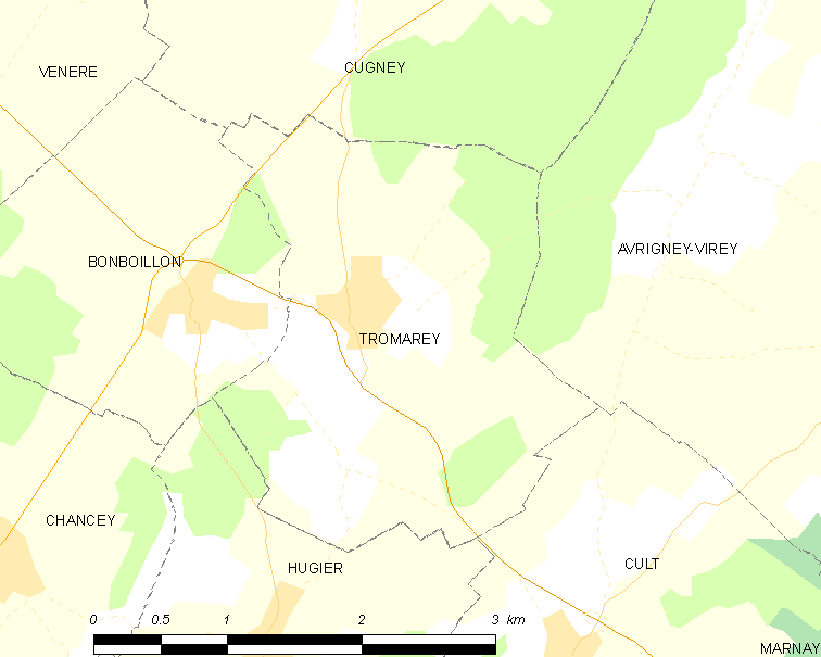 Map of French municipality